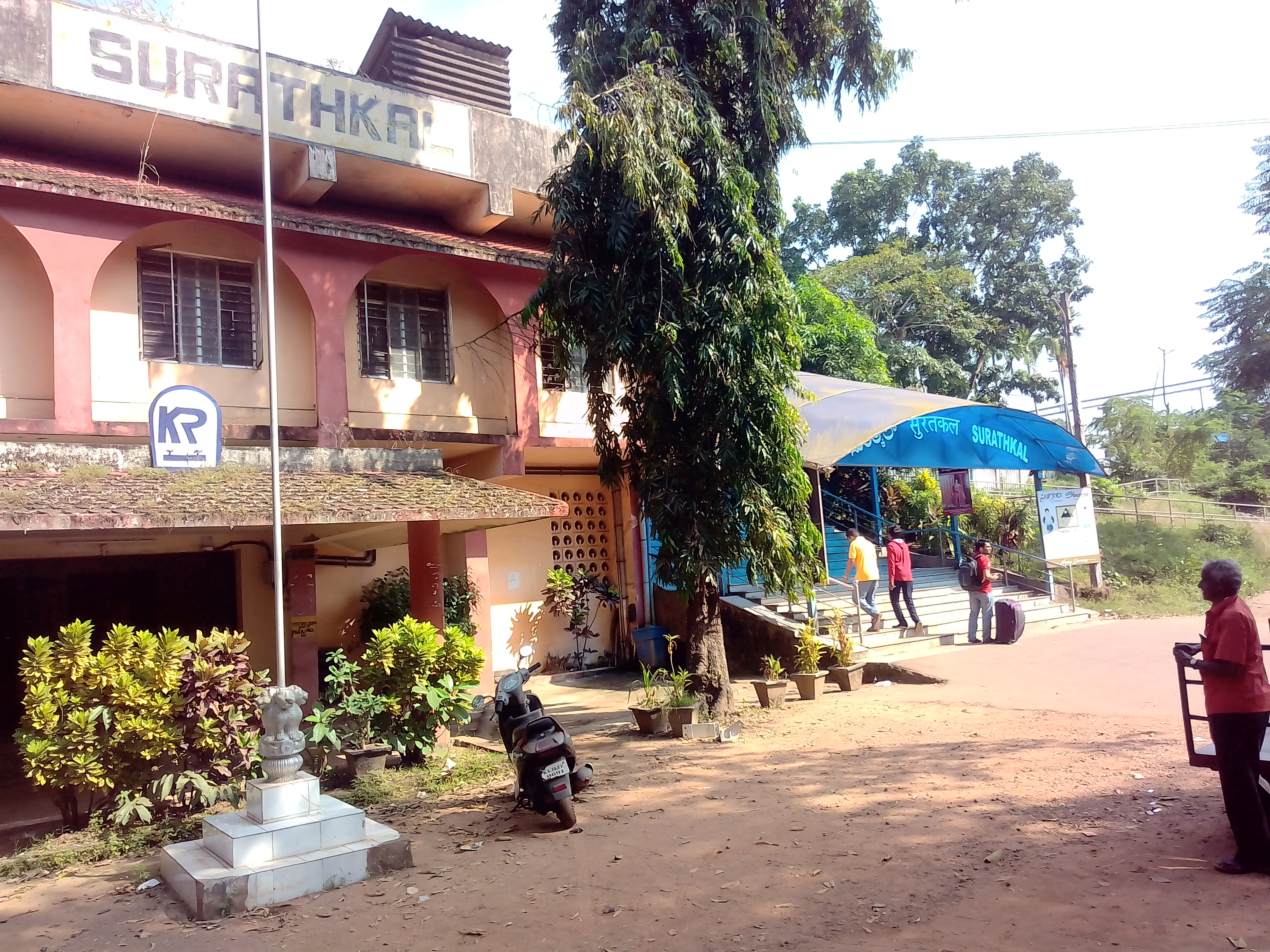 View of entrance to Surathkal railway station . View is from west side